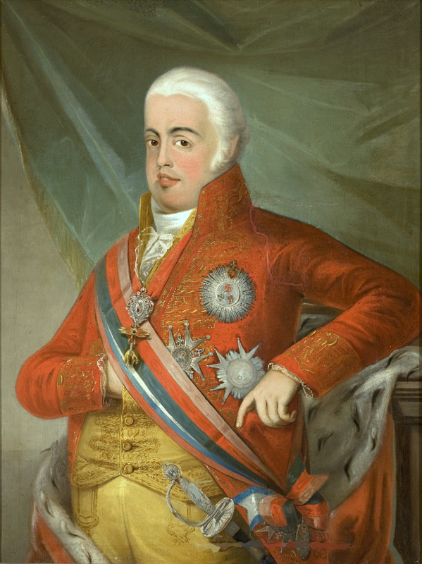 Copy of a lost original by Domingos Sequeira (ca. 1802).